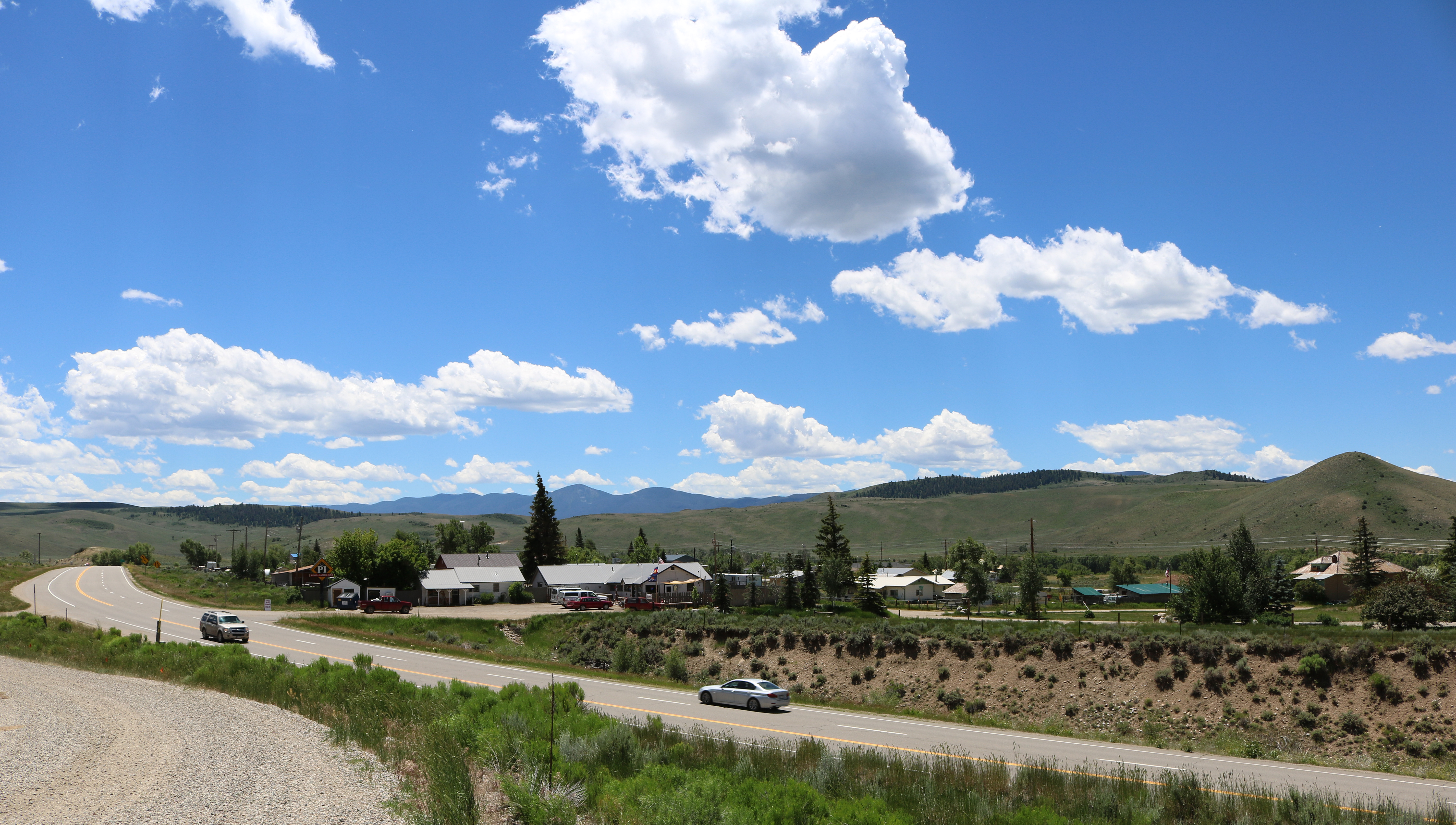 The town of Parshall, Colorado. The highway in the foreground is U.S. Route 40.